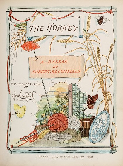 Frontispiece of Robert Bloomfield's poem, 1882